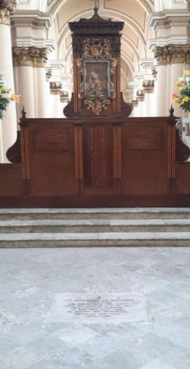 Tumba de Aurelio París (1829-1899) en la Catedral de Bogotá.